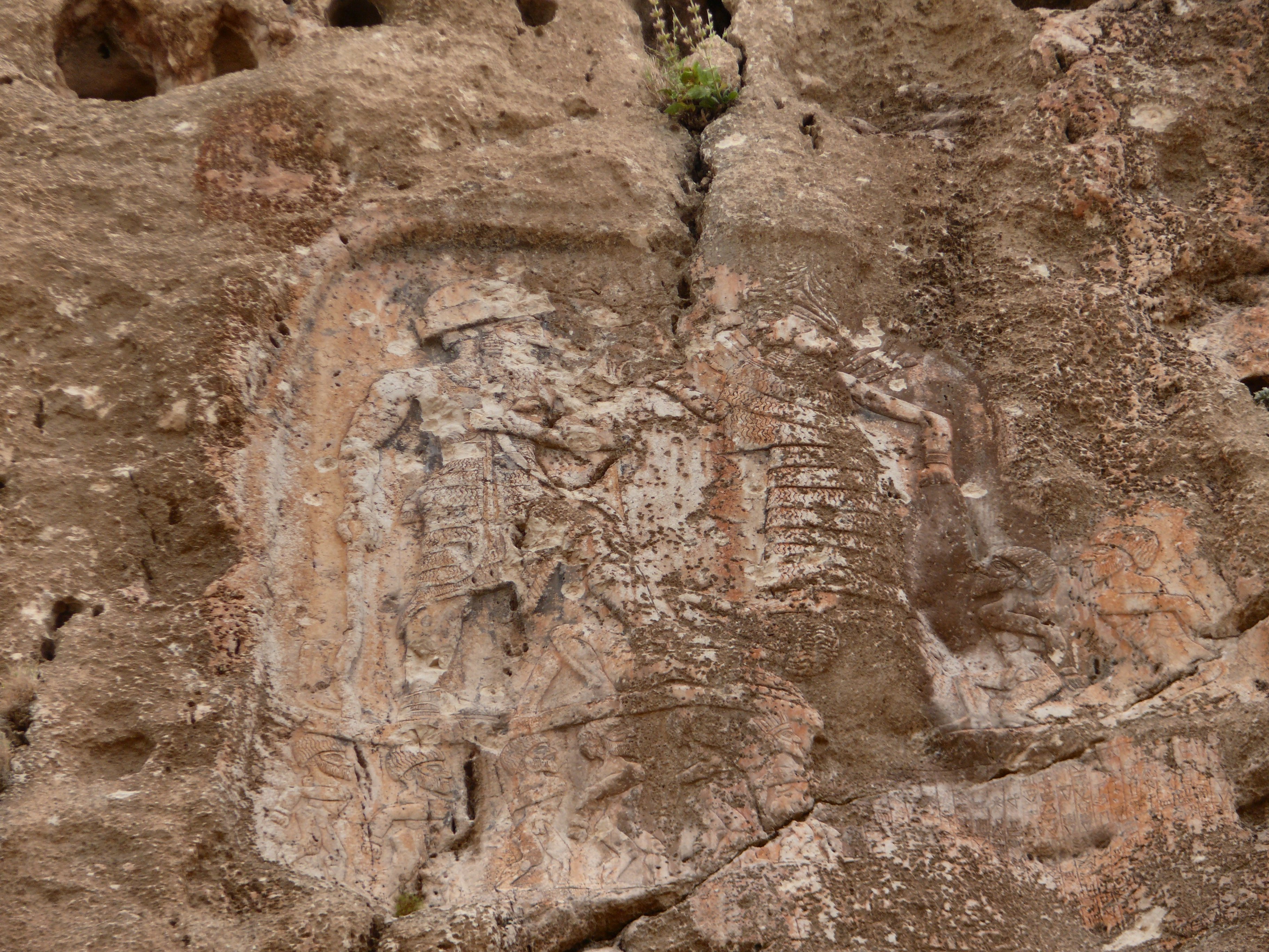 King Anubanini’s rock relief at Sarpol-e Zohab Anubanini was a king of the Lullubi, an ancient tribe located in the north Zagros mountains, in the actual Kurdistan. The lullubi are known from the ancient babylonian text, relating some of their campaigns looting some cities of the Mesopotamian plain, saying they came down from their moutains. They also left a set of 4 rock reliefs, all located in a gorge at Sarpol-e Zohab city. Another relief of the Parthian era was later carved under king Anubanini’s. The king is the main character, represented in a victorious posture, a dead enemy laying on the ground, under his foot. He holds a hatchet with the right hand, an arch and arrow with the left hand. He stands over a rank of naked prisoners hands bended in the back. The monarch overlooks other 2 kneeling naked prisoners, also hand bended in the back, tied by a string passed through rings on their noses, brought by goddess Innana, also known under the Babylonian name Ishtar. Innana wears a babylonain tiara, holds the ring of power to the king, a solar disc being seen above the scene. The relief was carved during the Isin I & Ur III eras (end of the 3nd millennium BCE), king Anubanini was identified by an Akkadian inscription. The relief is said to have inspired the style of Famous Darius the Great’s relief at Behistun, a registering process at the UNESCO world heritage was started, linking Anubanini’s relief to Behistun’s registration. .See the sheme of Anubanini’s relief here Taken at Sarpol-e Zohab, province of Kermanshah, Iran, may 2009.